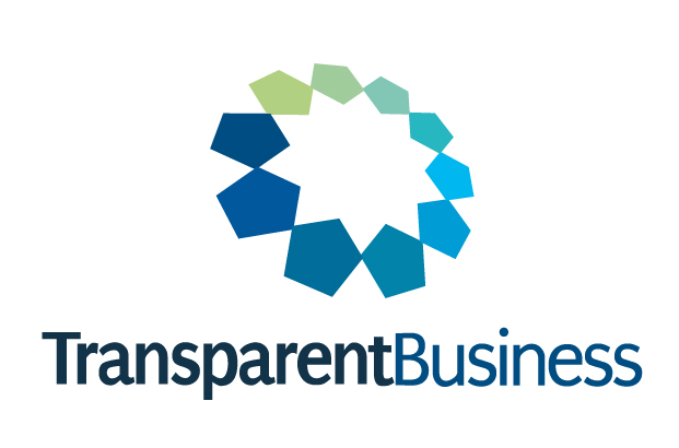 logo of software